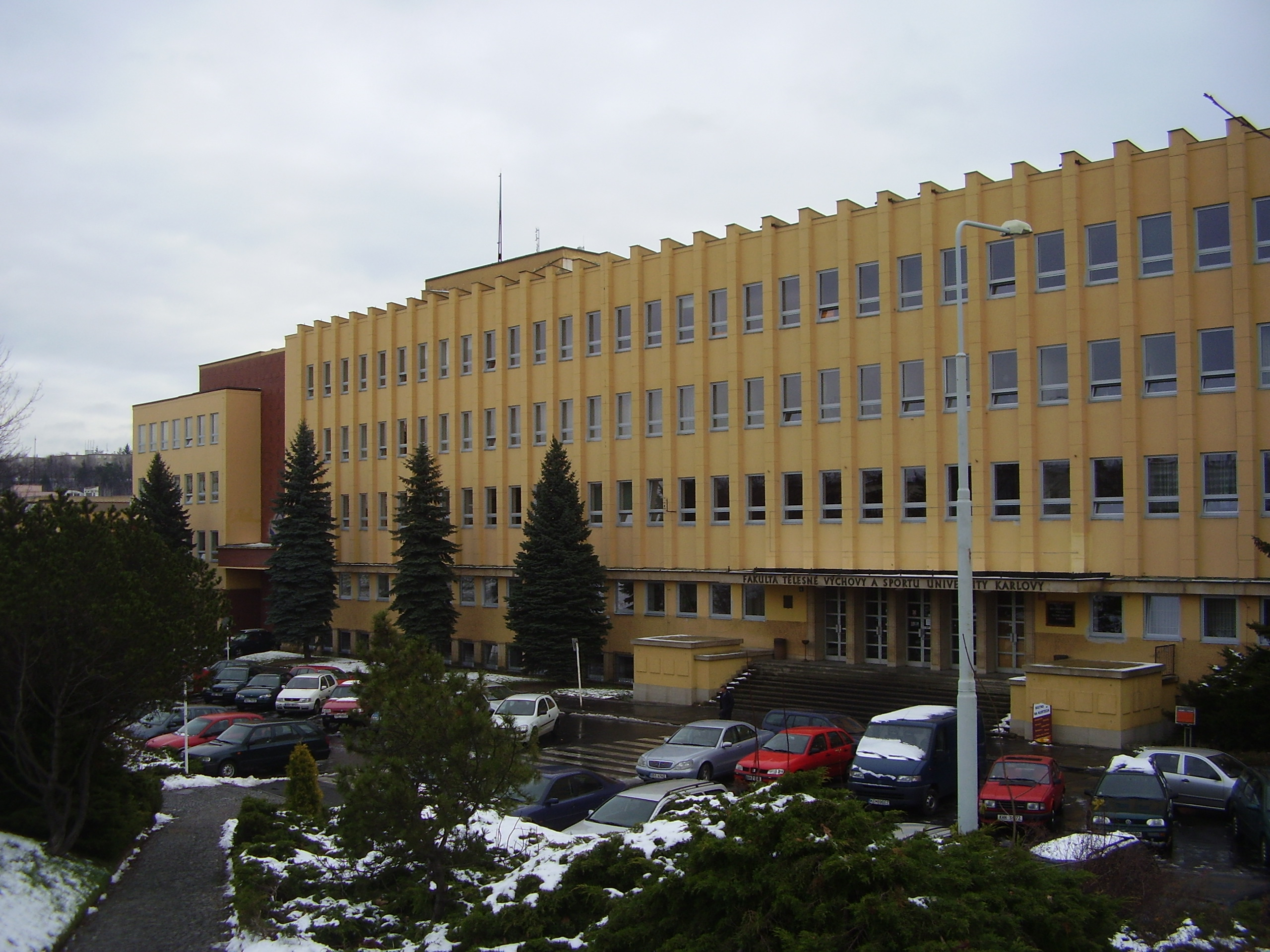 Building of Fakulta tělesné výchovy a sportu Univerzity Karlovy, Veleslavín, Prague 6